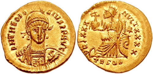 THEODOSIUS II. (r. 402-450). AV Solidus (21mm, 4.46 gm). Thessalonica mint. Struck 430-440 AD. D N THEODOSIVS P F AVG, diademed and helmeted three-quarter facing bust, holding spear over right shoulder and shield. VOT XXX MVLT XXXX, Constantinopolis enthroned left, foot on prow, holding globus cruciger and sceptre; star in right field; TESOB. RIC X 366; DOCLR 390.